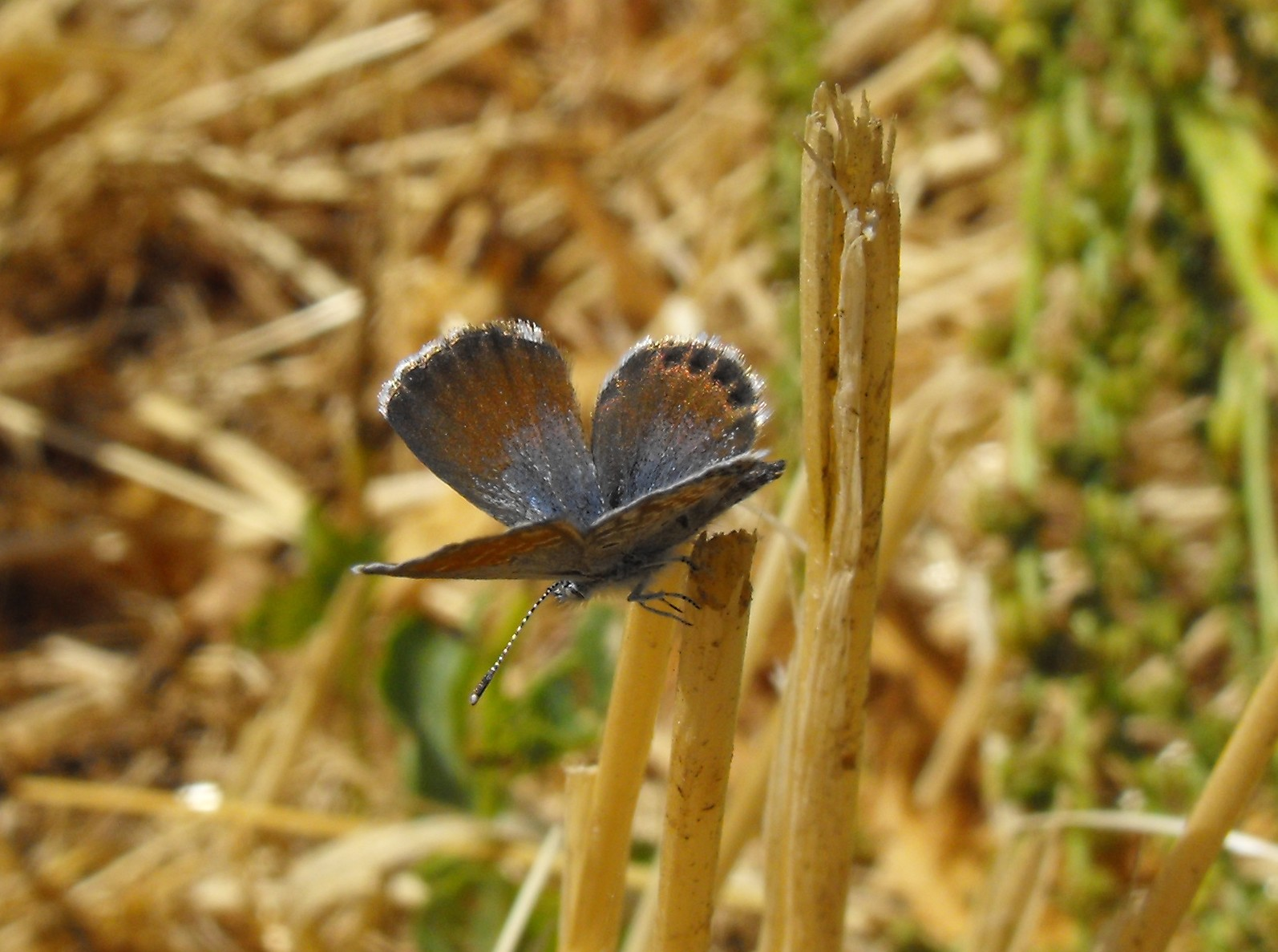 Brephidium exilis, the western pygmy blue, in Lemon Grove, California, USA.